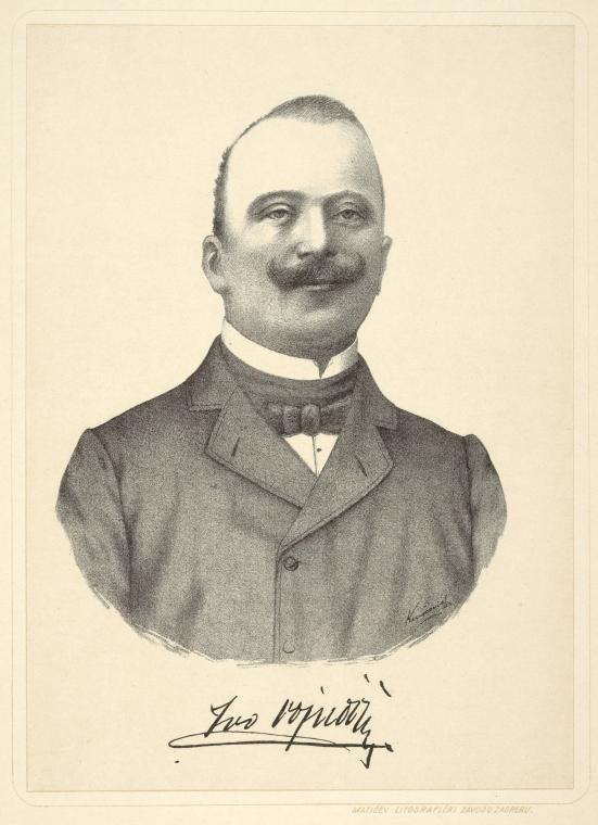 Ivo Vojnović. old Croatian book, public domain